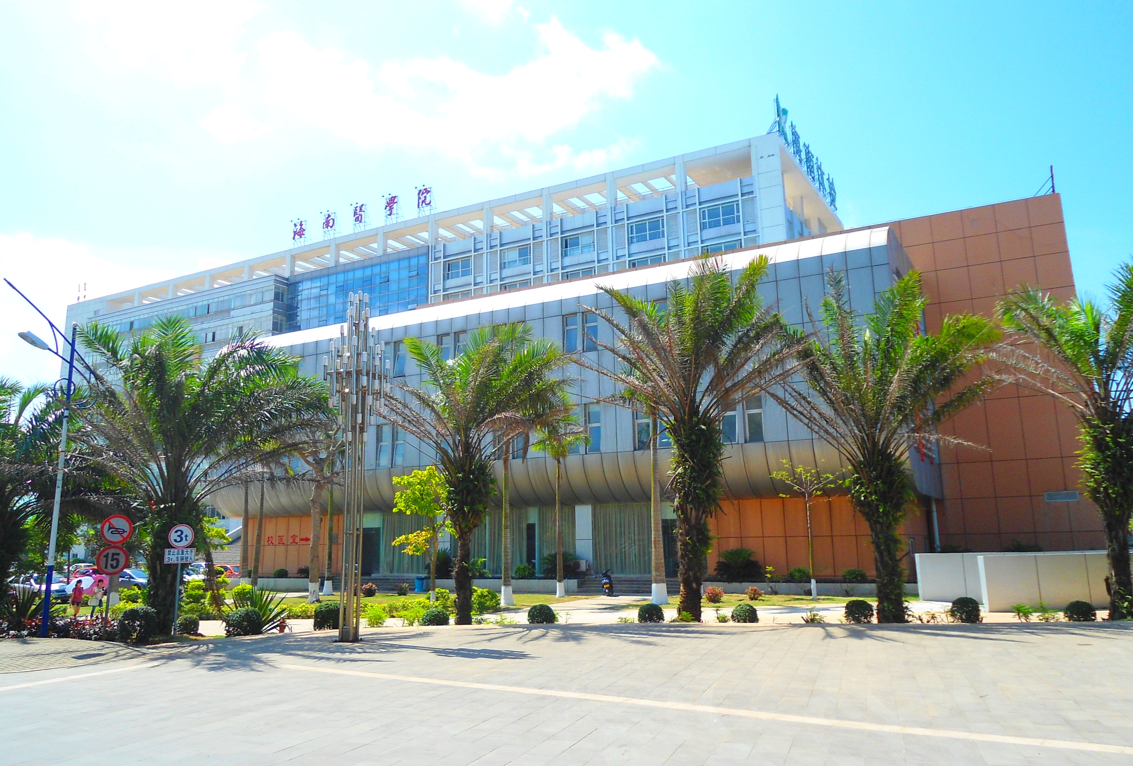 Hainan Medical College, Haikou City, Hainan Province, China.